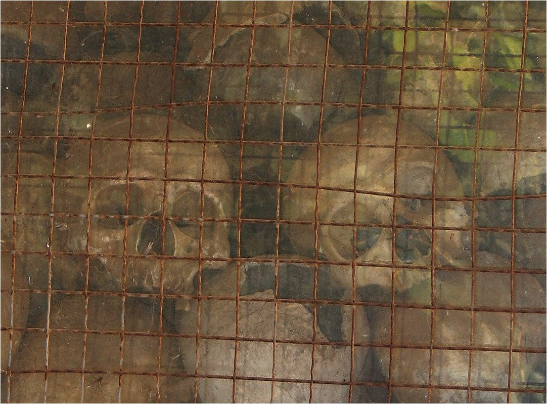 Khymer Rouge victims